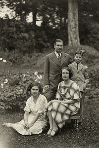 Matila Ghyka with wife Eileen and children Maureen and Roderick in 1935